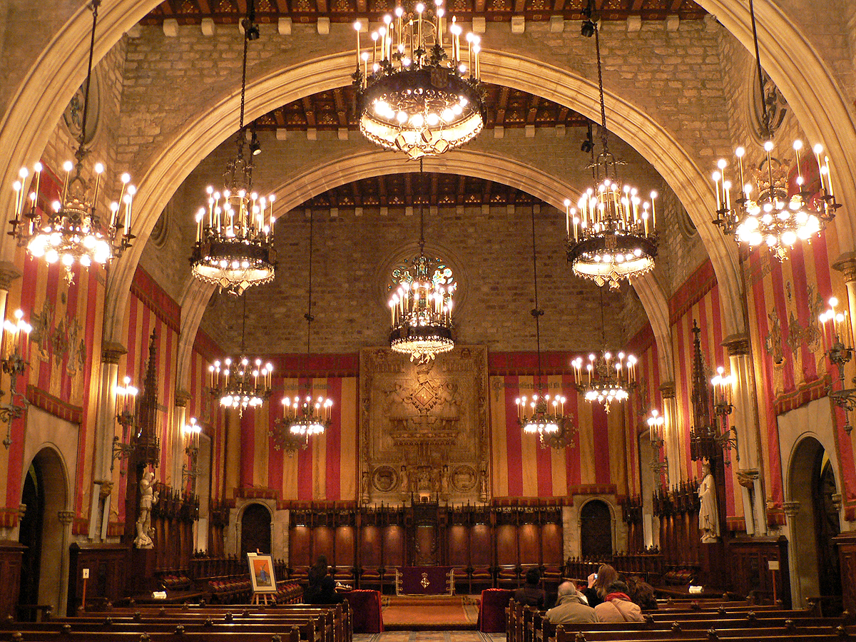 Barcelona. City Hall. "Saló de Cent".